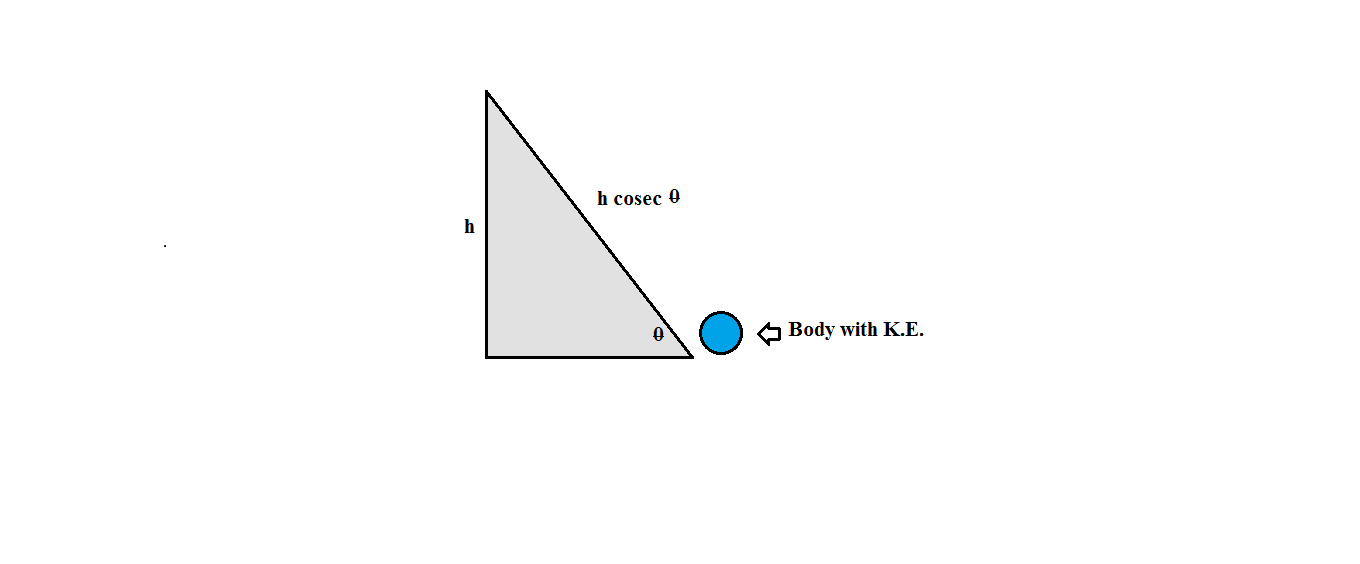 The rolling of a body in the uphill direction.